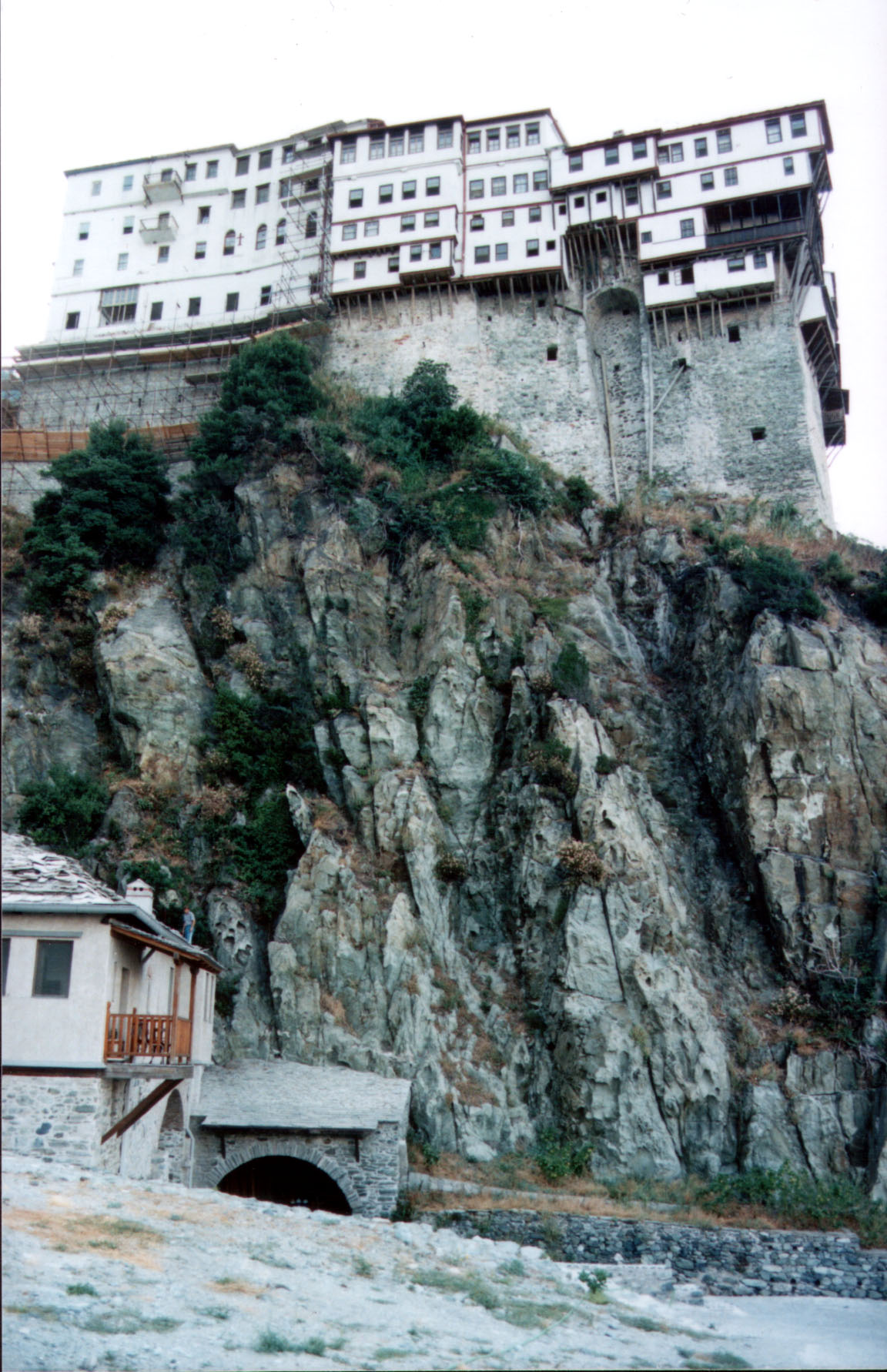 Agiou Dionysiou monastery